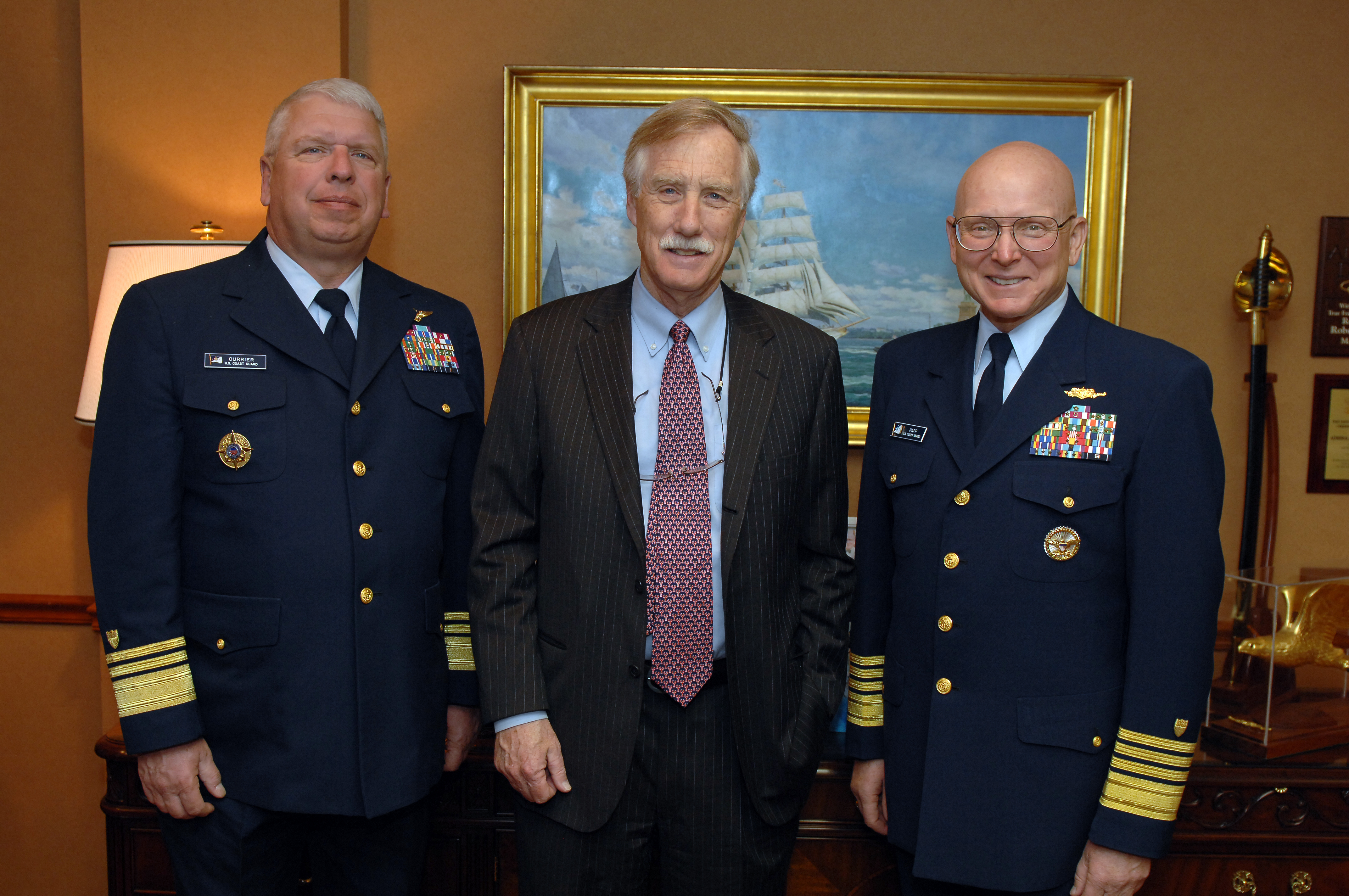 U.S. Coast Guard Adm. Robert J. Papp Jr., right, commandant of the Coast Guard, and Vice Adm. John P. Currier, left, vice commandant of the Coast Guard, pose for a photograph with Sen. Angus S. King Jr. during a meeting at Coast Guard Headquarters in Washington, D.C., April 23, 2013.